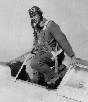 cropped photograph of test pilot First Lieutenant Benjamin S. Kelsey (later Brigadier General) stepping out of the cockpit of the second production model P-36A fighter after a flight test at Wright Field in the spring of 1938.